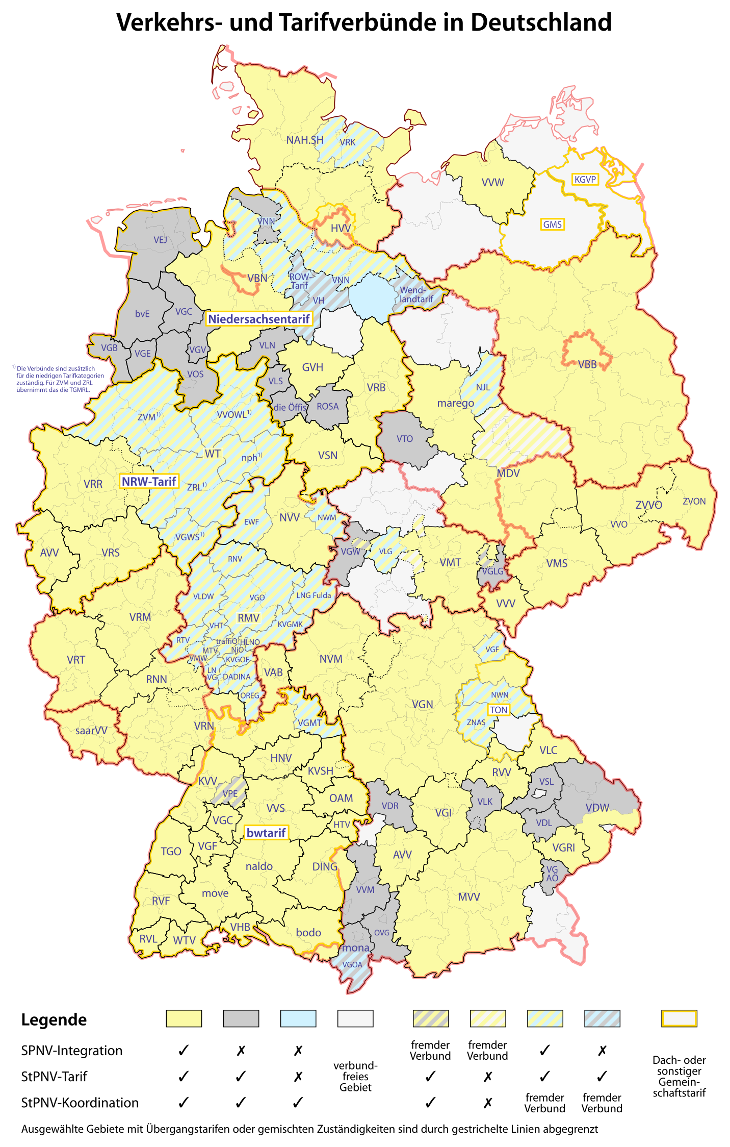 Map of German transport associationsAbbreviations are explained in this list of German transport associations.